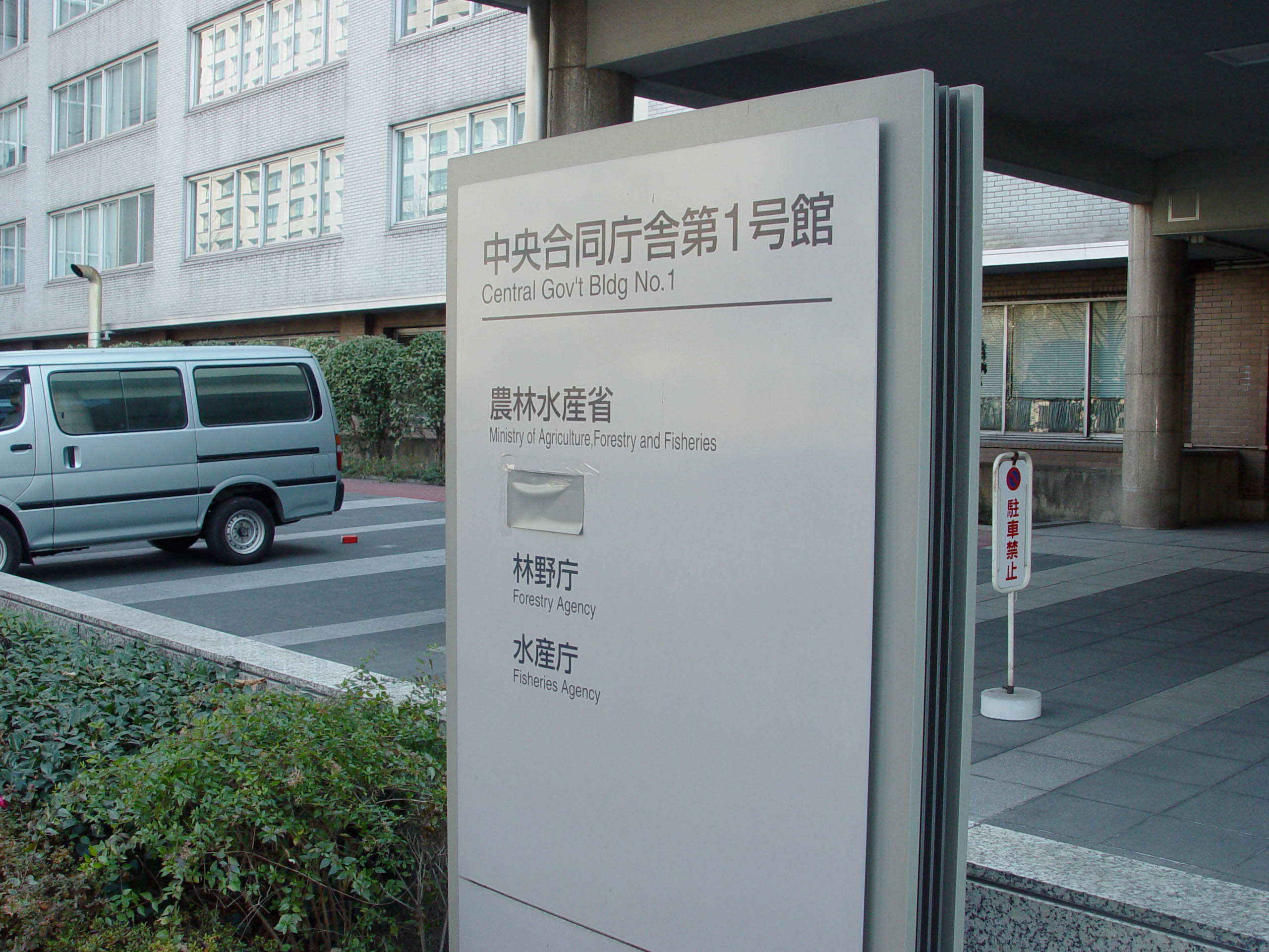 Public office building of Japan: The Ministry of Agriculture, Forestry and Fisheries 庁舎： 農林水産省